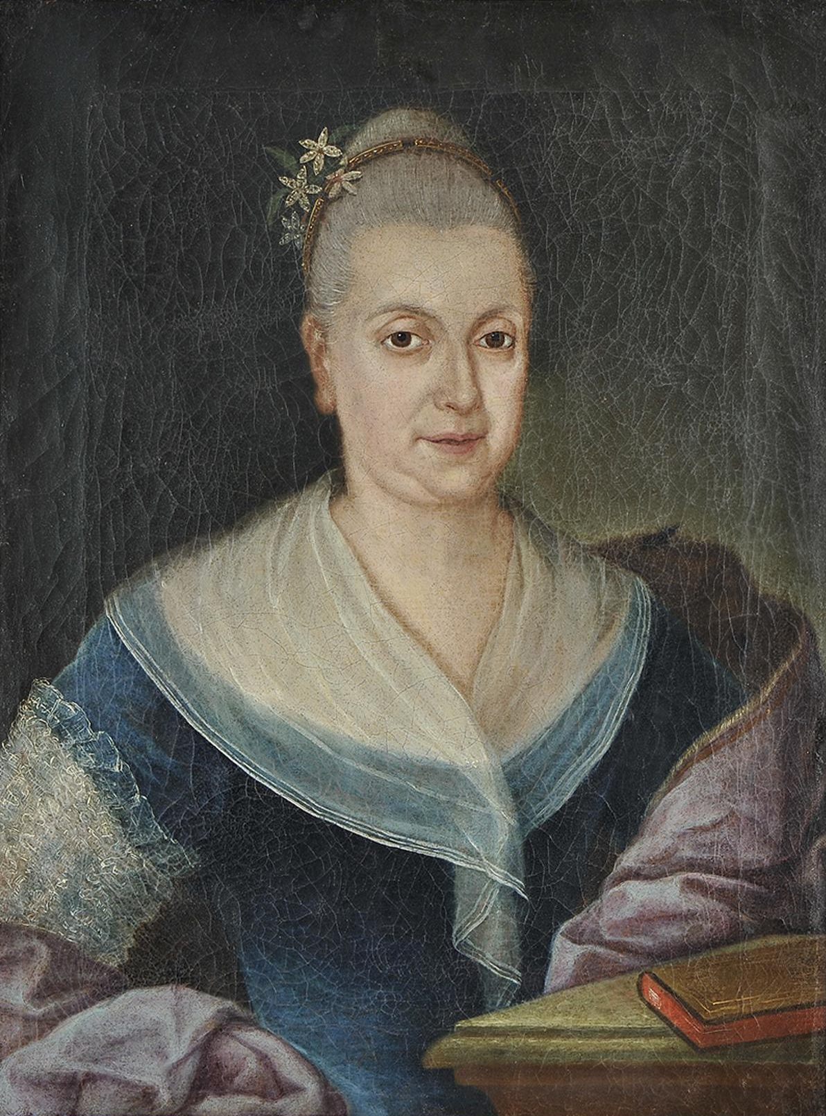 Eugénia Maria Josefa de Bragança, Viscountess of Vila Nova da Cerveira (1725-1795)